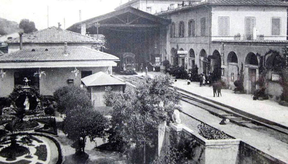 Siena old train station, second half 1800